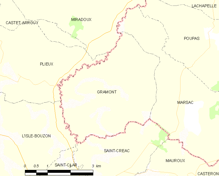 Map of French municipality Gramont